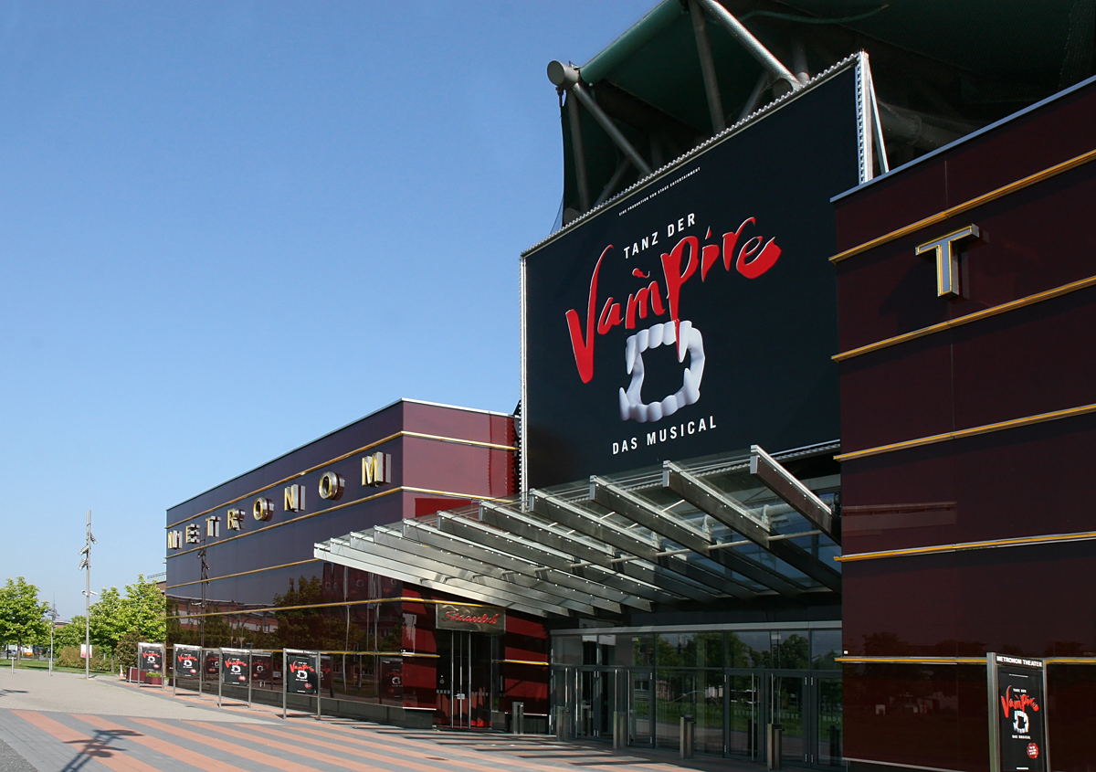 Metronom Theater (at CentrO) in Oberhausen, Germany, staging "Dance of the Vampires", April 2009.